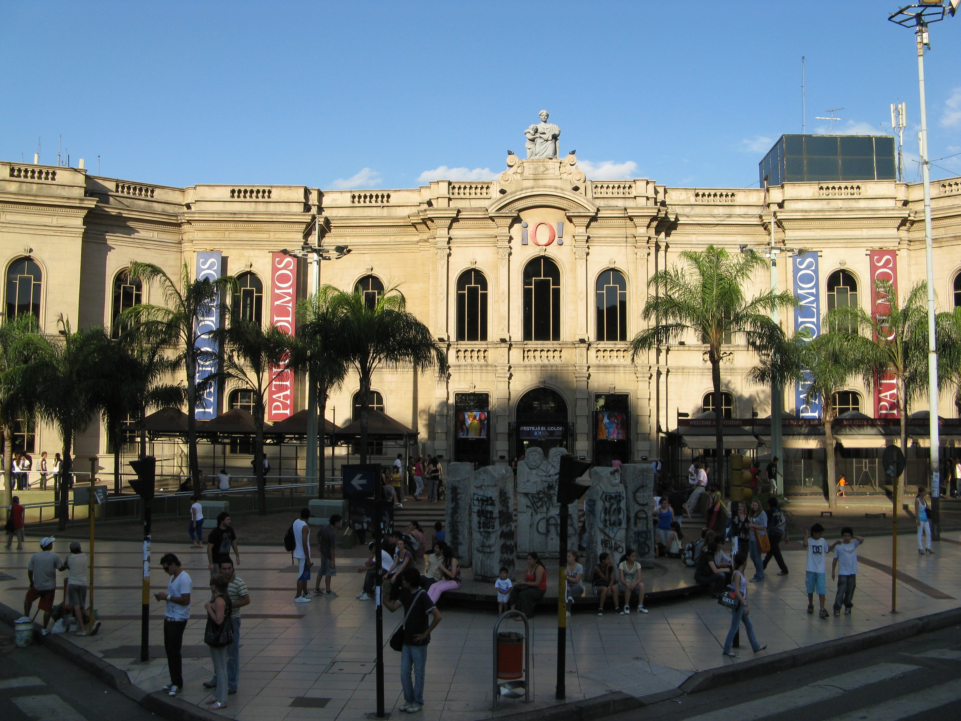 Patio Olmos shopping mall. Cordoba, Argentina.